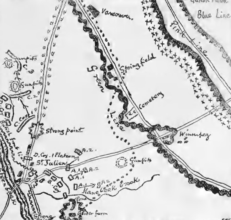 ketch map of German defences east of St Julien, August 1917